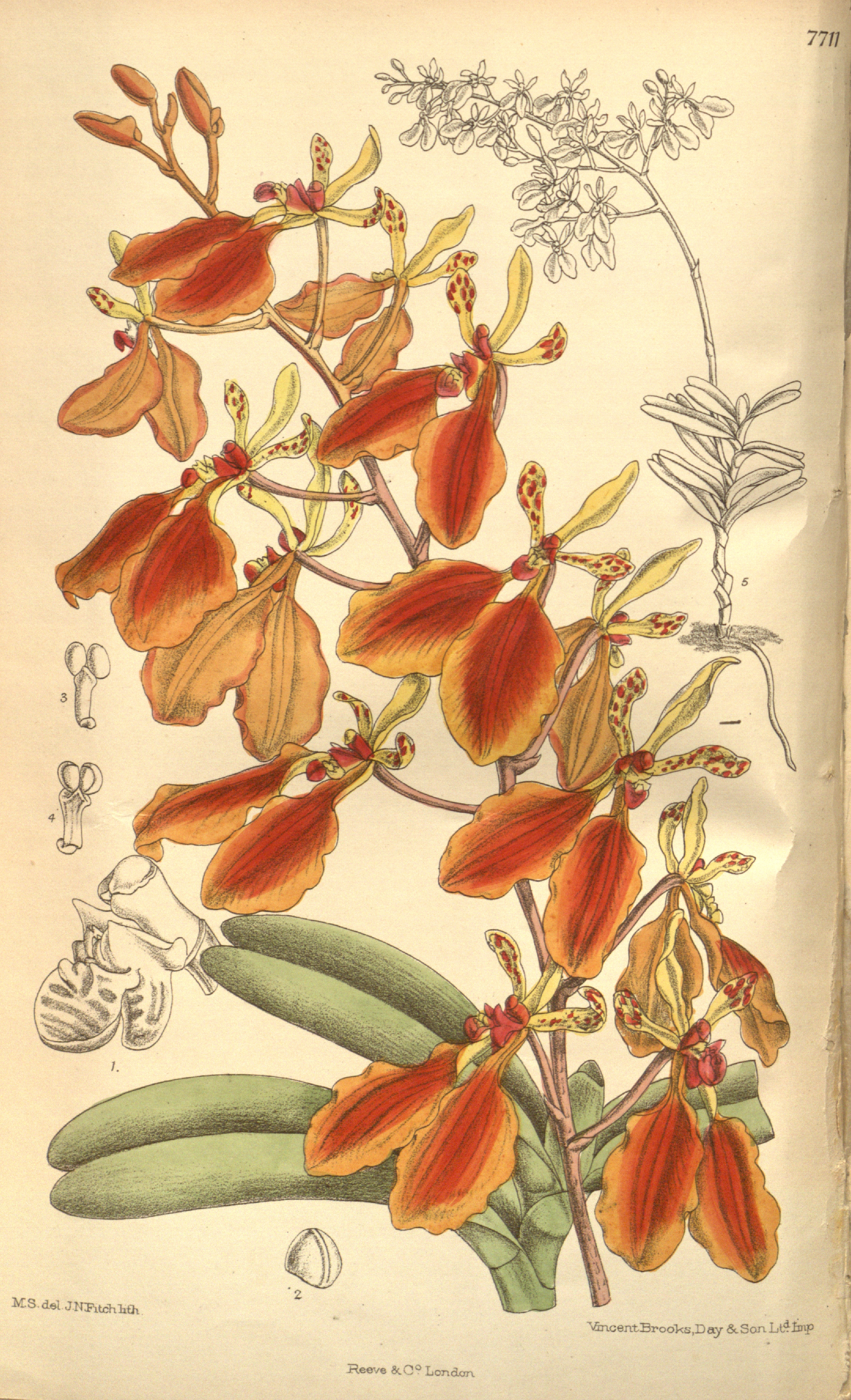 Illustration of Renanthera imschootiana